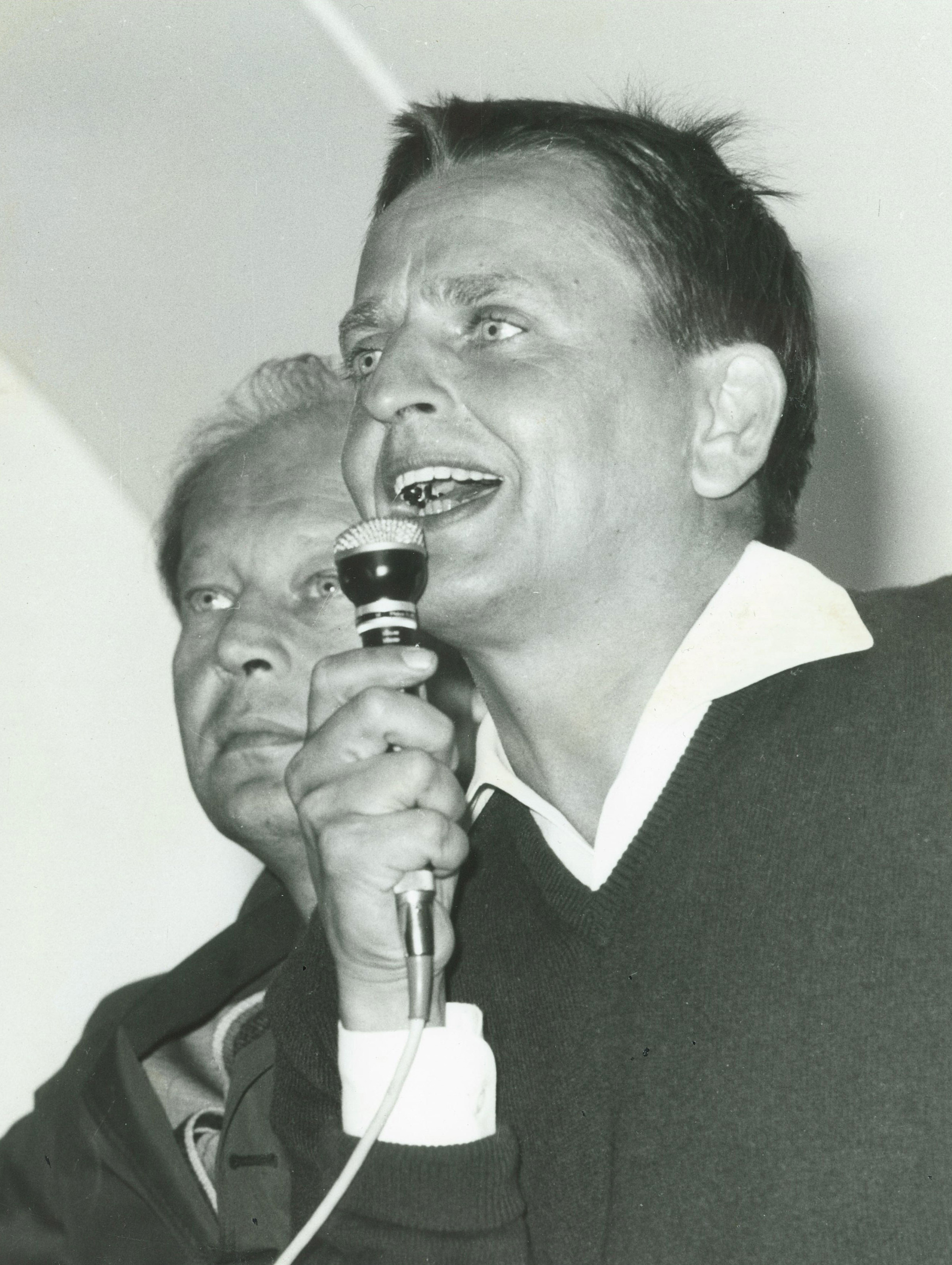 Then Minister for Education Olof Palme delivering the first speech in Almedalen Park, Gotland. His annual speeches in Almedalen would lay the ground for the annual Almedalen Week, starting in the 1980's. Standing behind Palme is then Deputy Minister for Finance Krister Wickman.